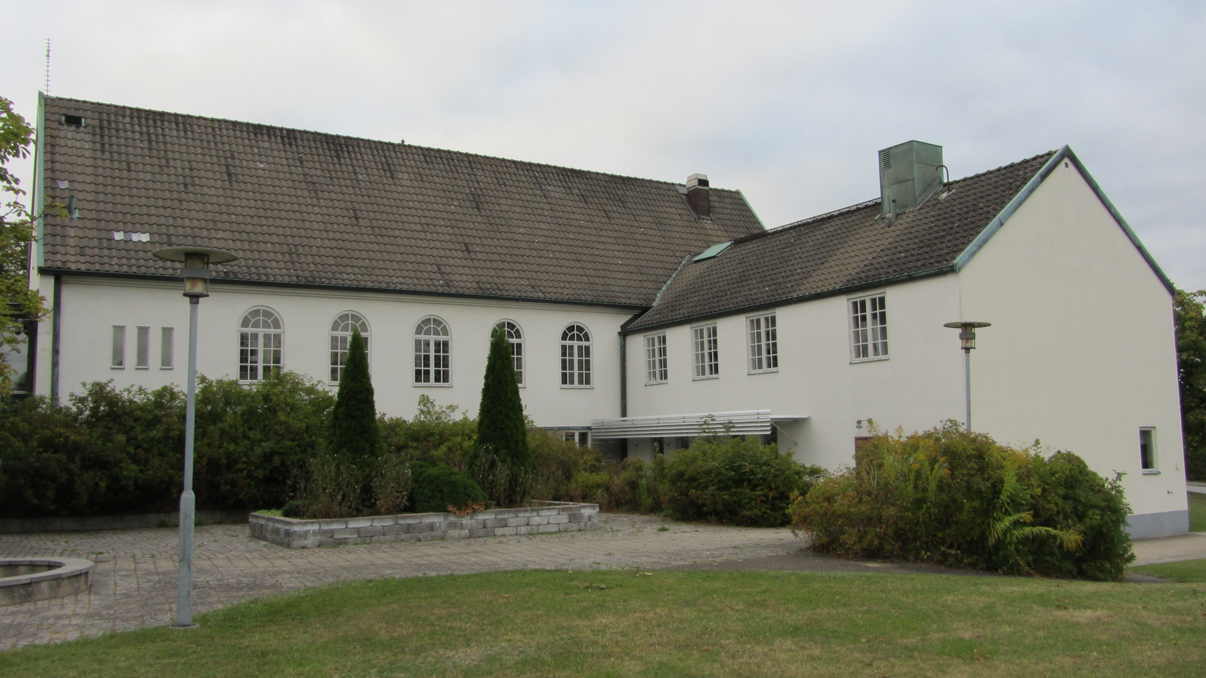 Olofström Church in Olofström Municipality, Blekinge County, southern Sweden